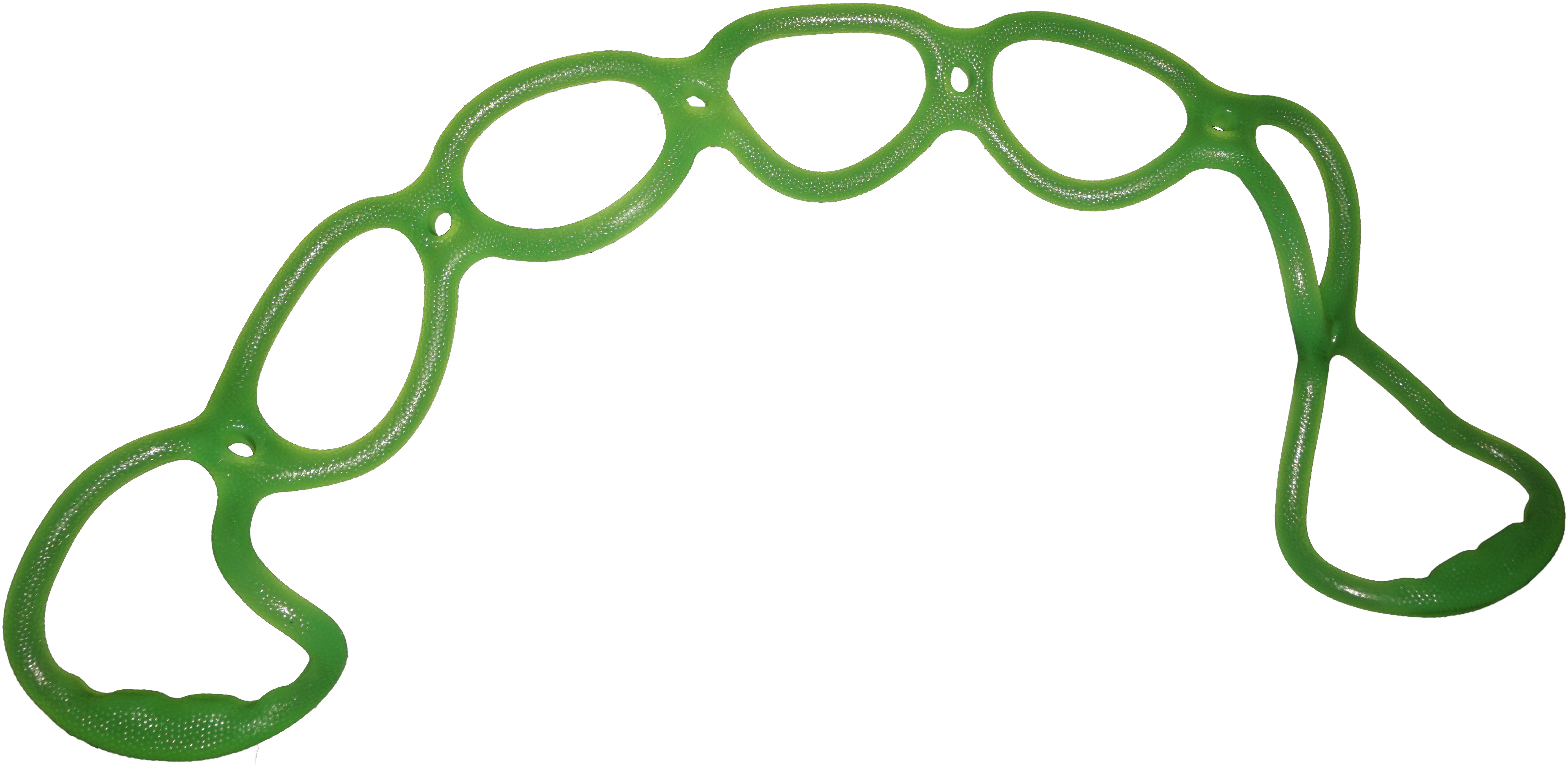 Green elastic strength band.